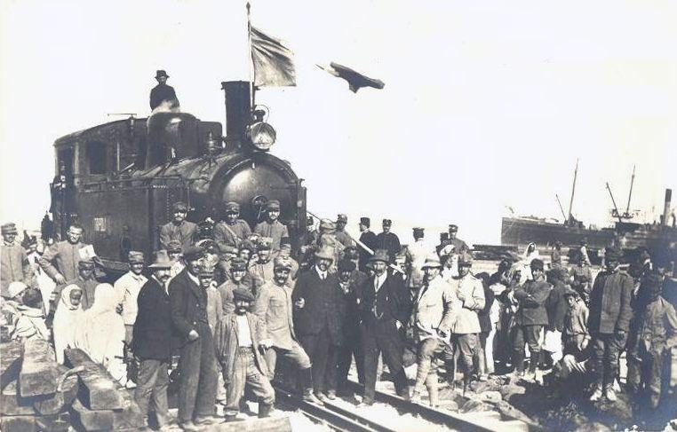 The first Locomotive arrived in Tripoli Seaport.